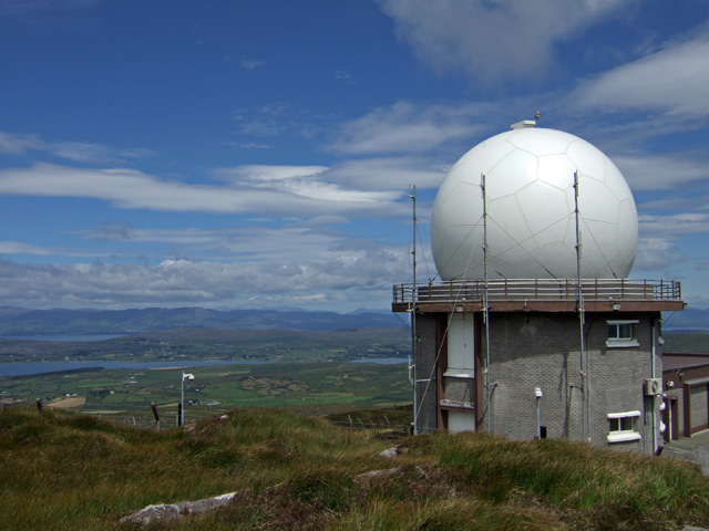 Summit of Mount Gabriel The Irish Aviation Authority's radar tracking facility on Mount Gabriel, has in this direction as its backdrop, views of the Sheepshead Peninsula, and in the far distance, the Caha mountains of the Beara Peninsula. The summit is 407 metres, or 1336 feet.